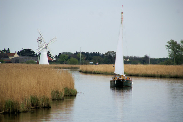 River Thurne above Thurne View downstream towards Thurne Dyke Drainage Mill.